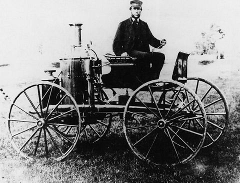 Sylvester Roper's steam carriage made sometime before 1870. Smithsonian negative 77-3533